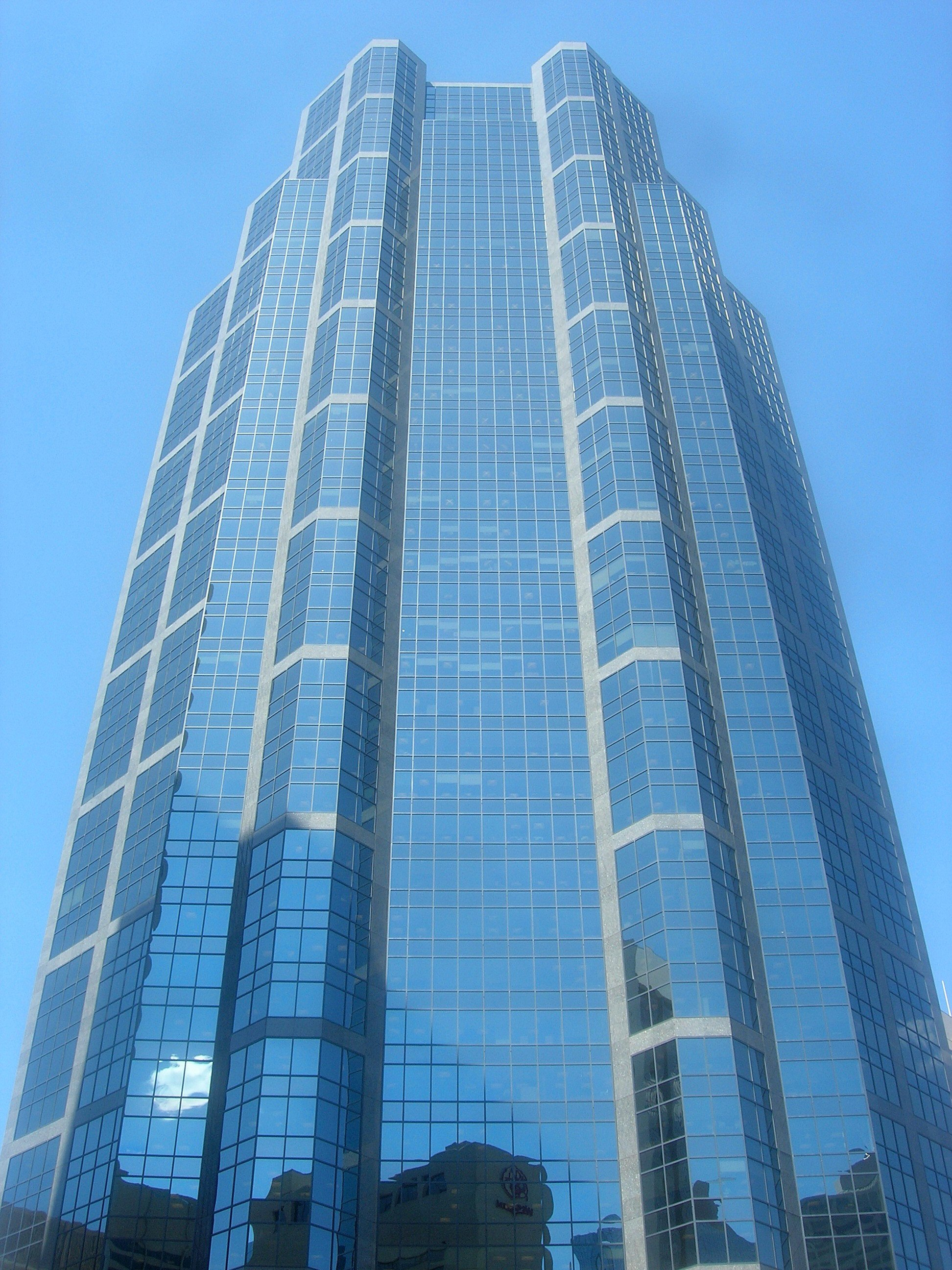 Canterra Tower (177 m/ 580 ft) in downtown Calgary